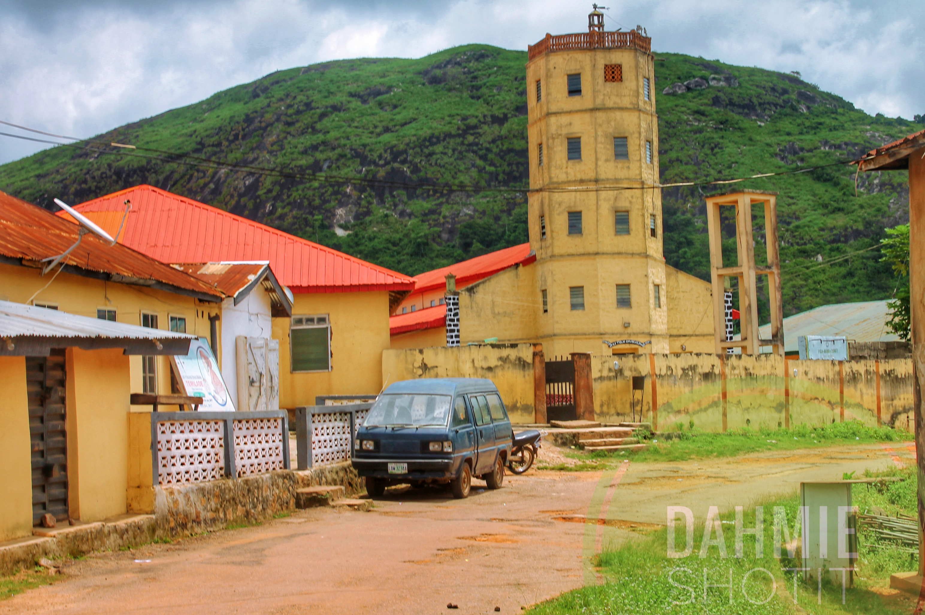 The first Christ apostolic Church (CAC) and one of the oldest in the town of Ilawe over 80 year old, Ekiti state Nigeria.